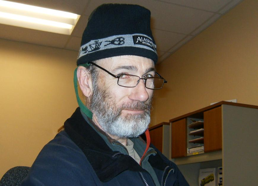 A suspicious man wearing a toque